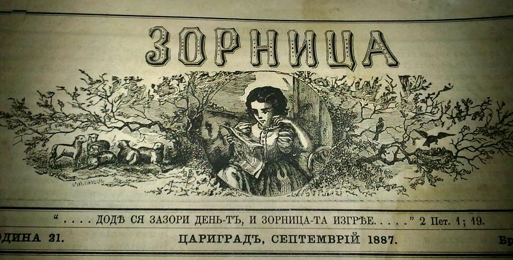 Masthead of the newspaper "Zornitsa", 1887